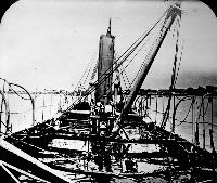 View aboard the wreck of the Spanish Navy cruiser Velasco after the Battle of Manila Bay in 1898